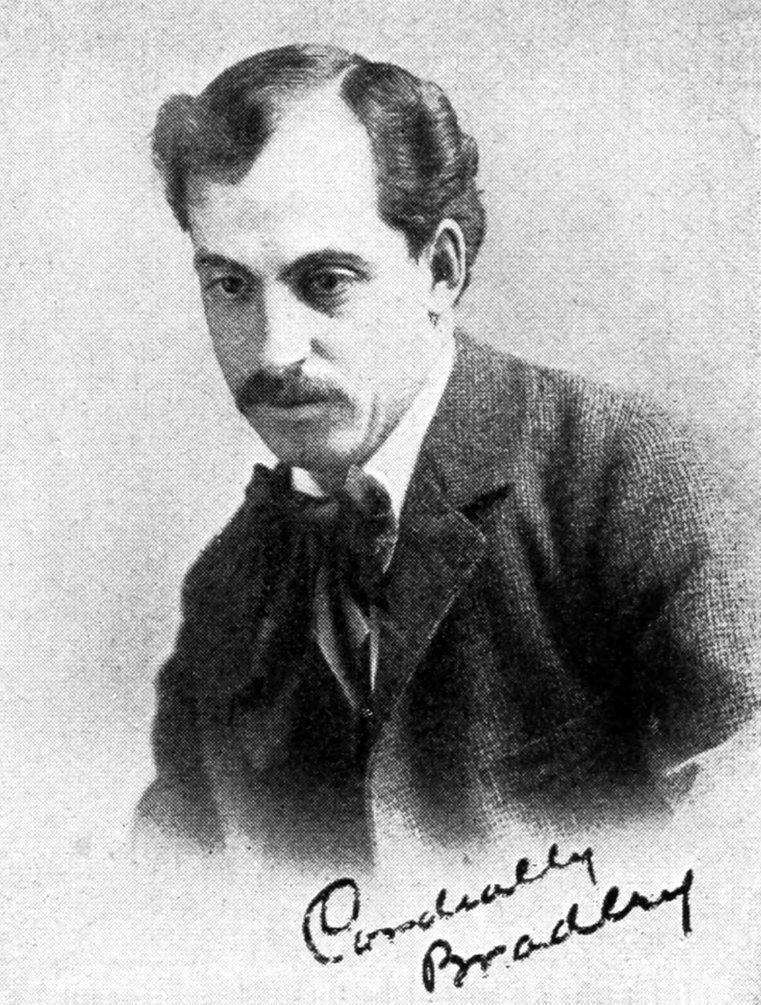 Photograph of artist and illustrator Will H. Bradley